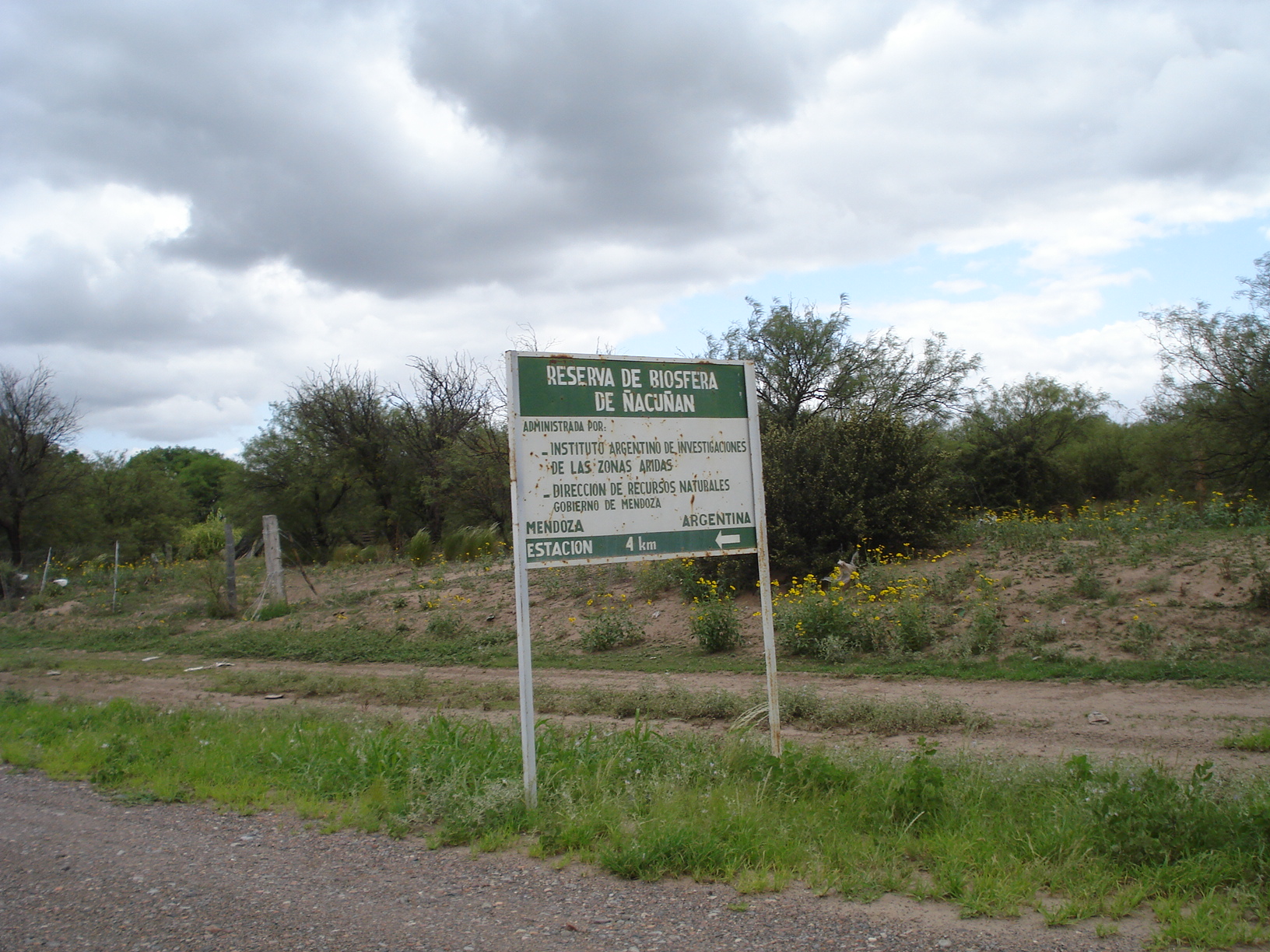 Ñacuñán's Reserve in Santa Rosa Department, in Mendoza, Argentina.